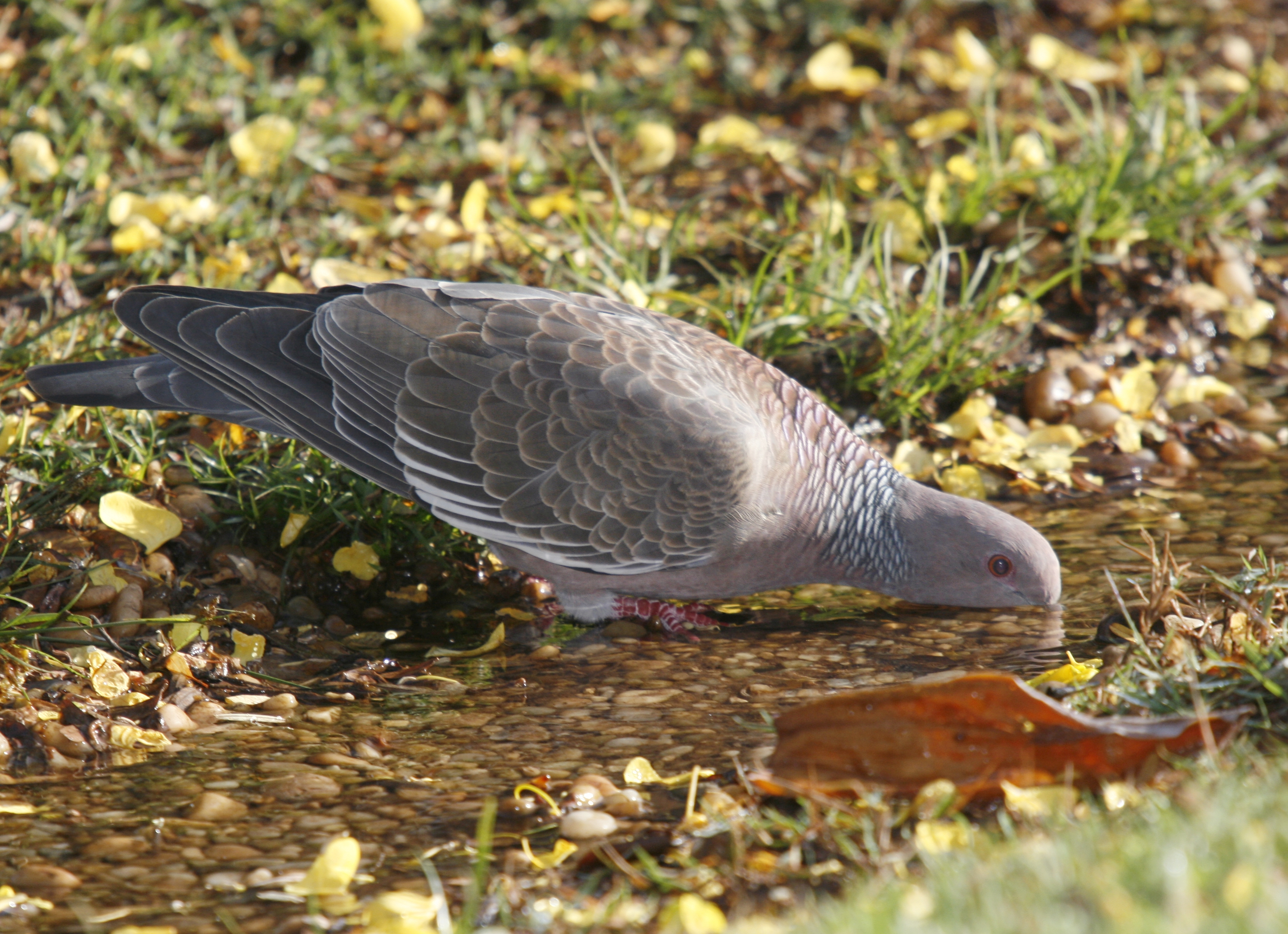 Picazuro Pigeon drinking by putting its whole beak in water to draw water up.